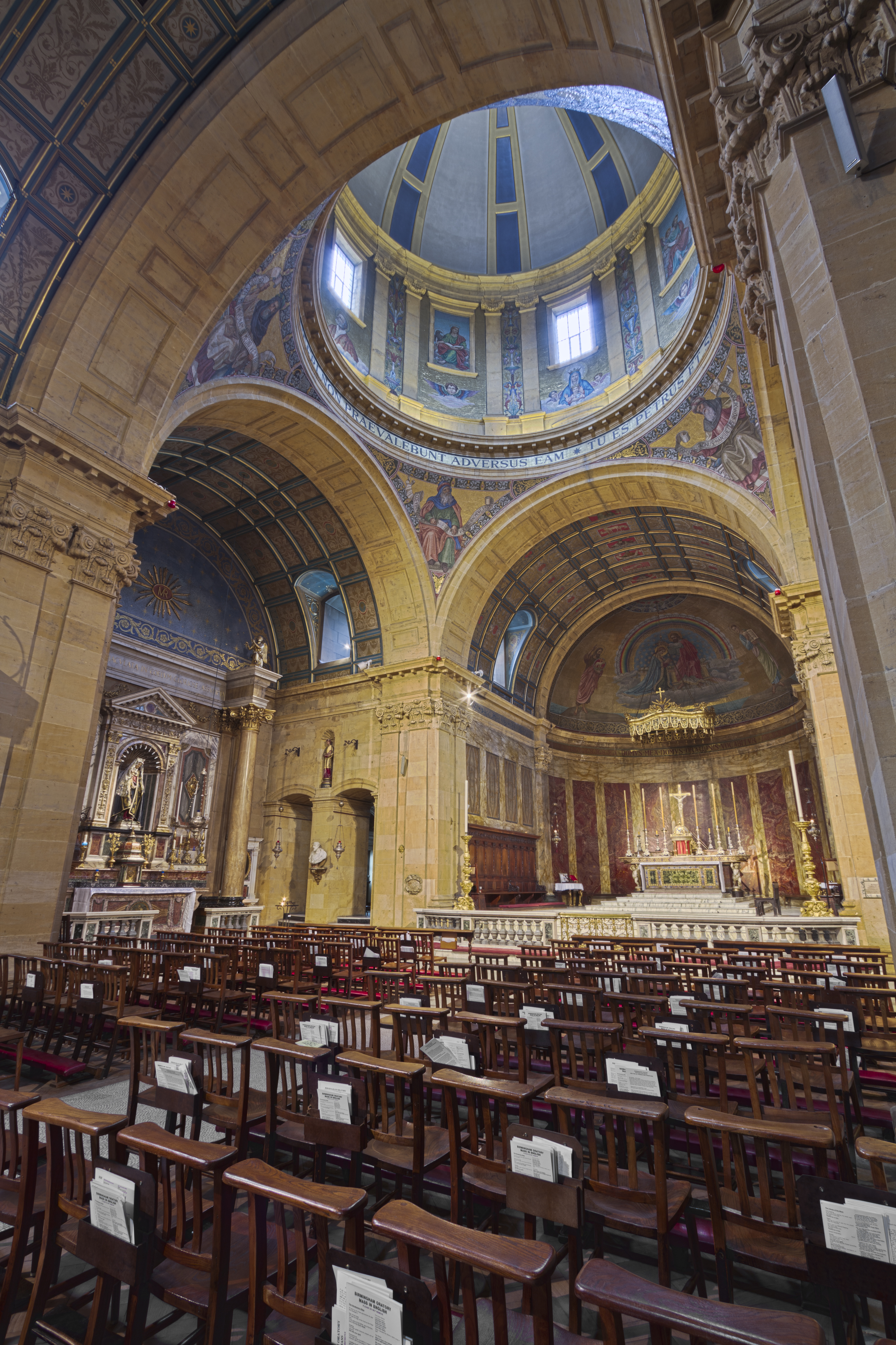 hdr photograph taken from the altar inside the Roman Catholic Oratory Church of the Immaculate Conception, Edgbaston, Birmingham, England